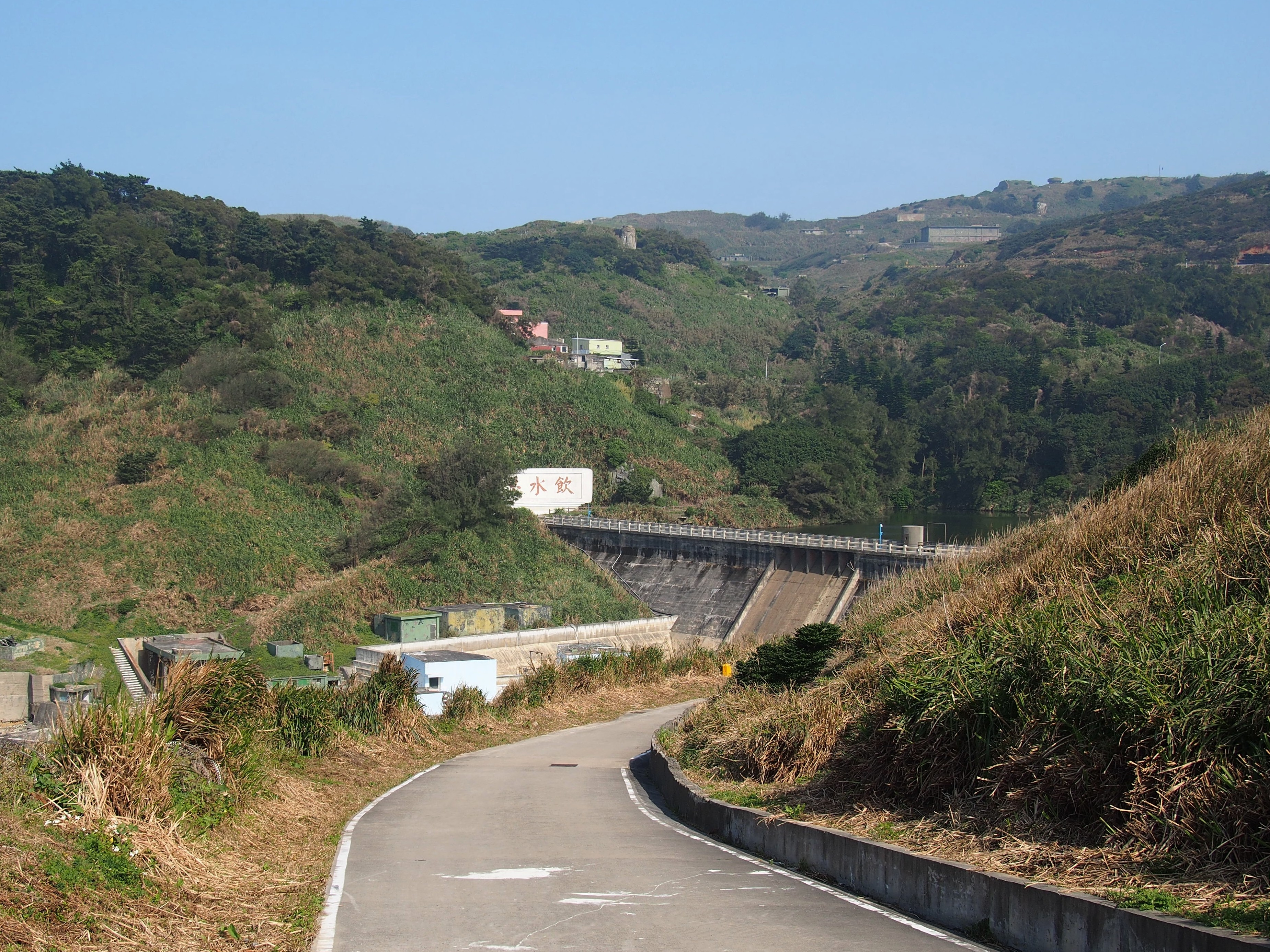 Dongyong Reservoir - 2016.04